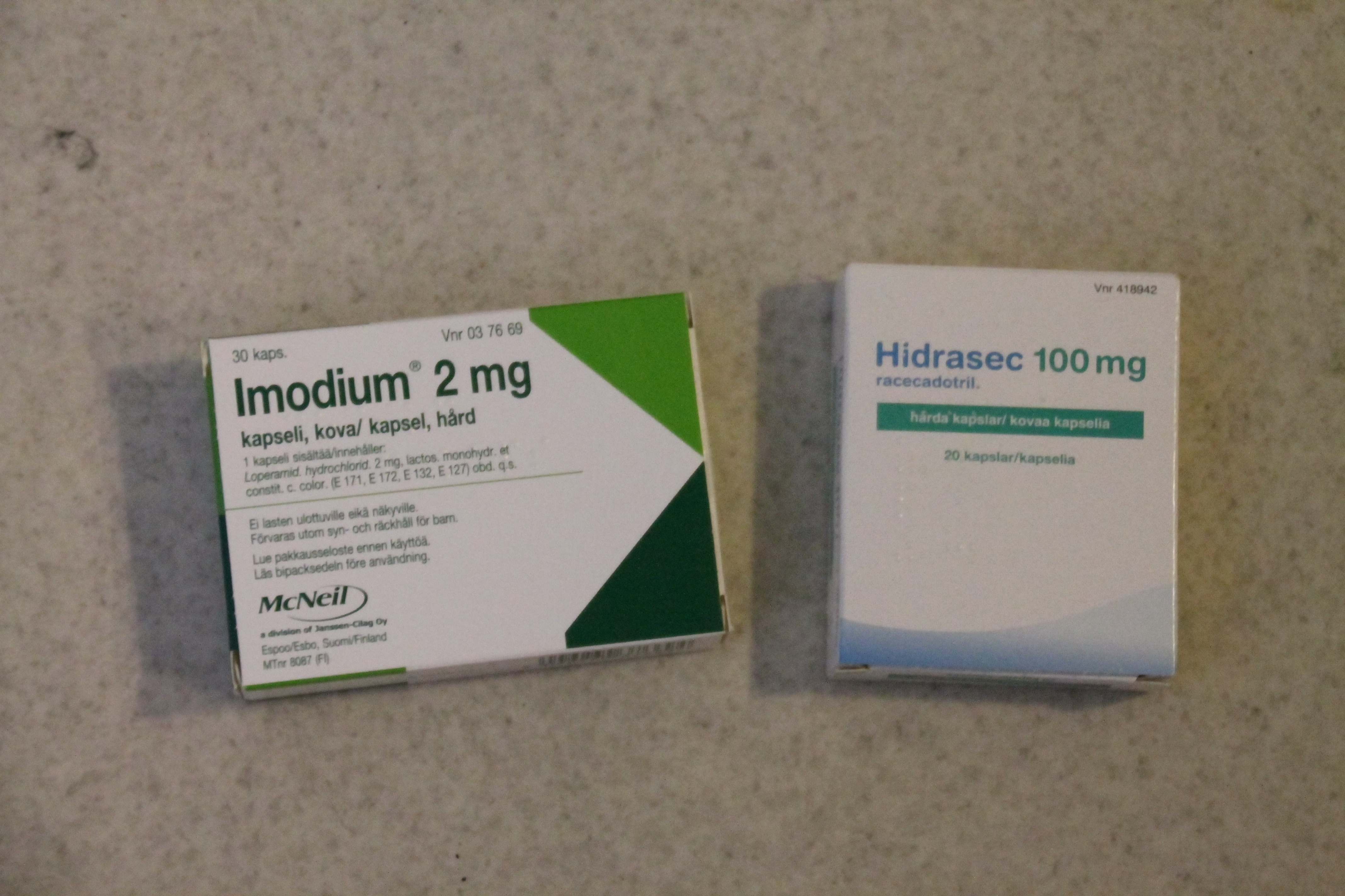 Medicine used for treatment of diarrhea.